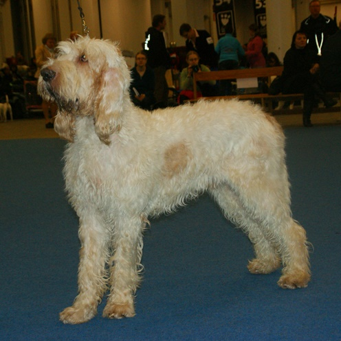 A white-and-orange Large Vendéen Griffon.